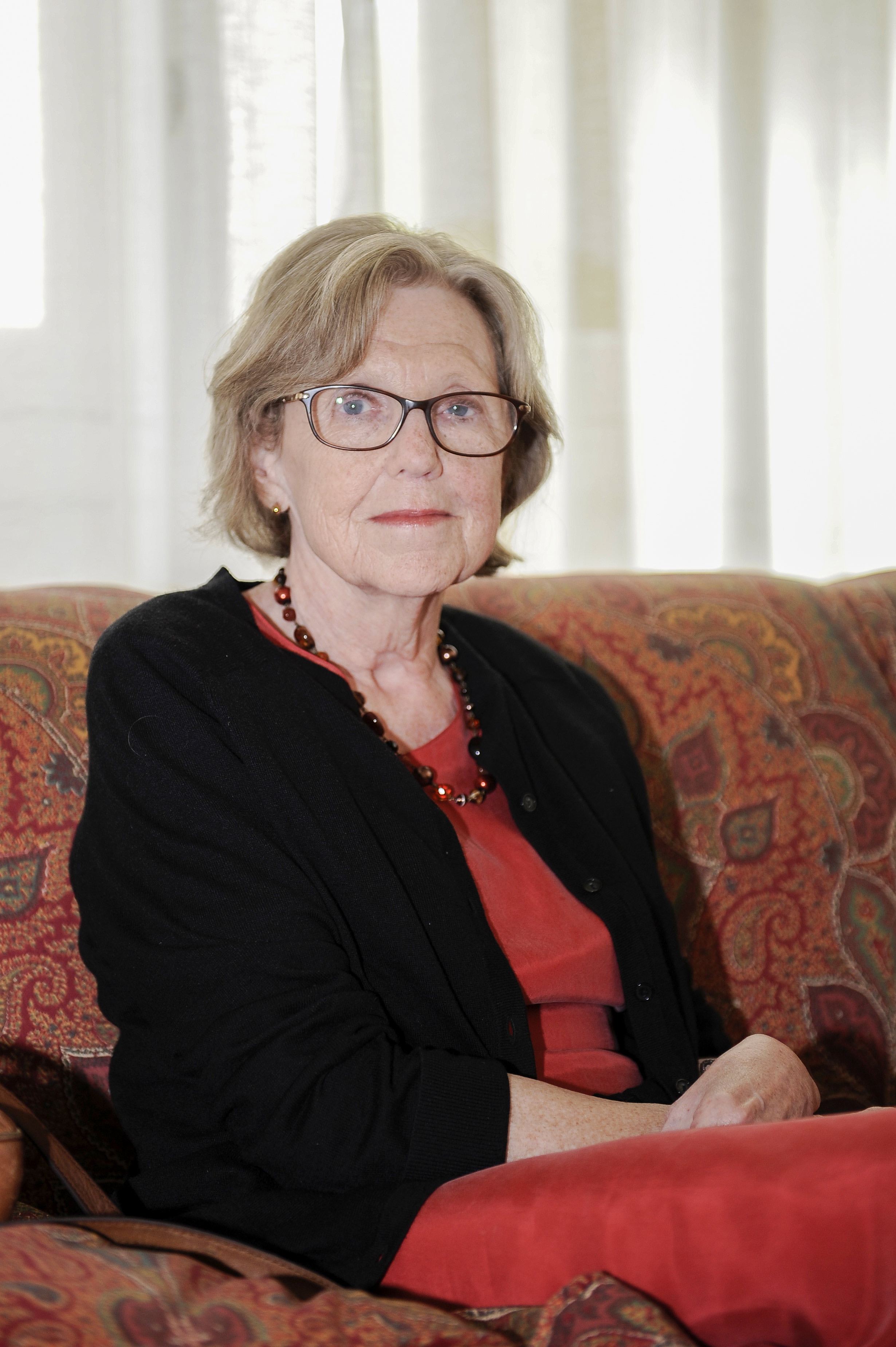 Georgina Mace, Bilbao, Spain at the BBVA award ceremony